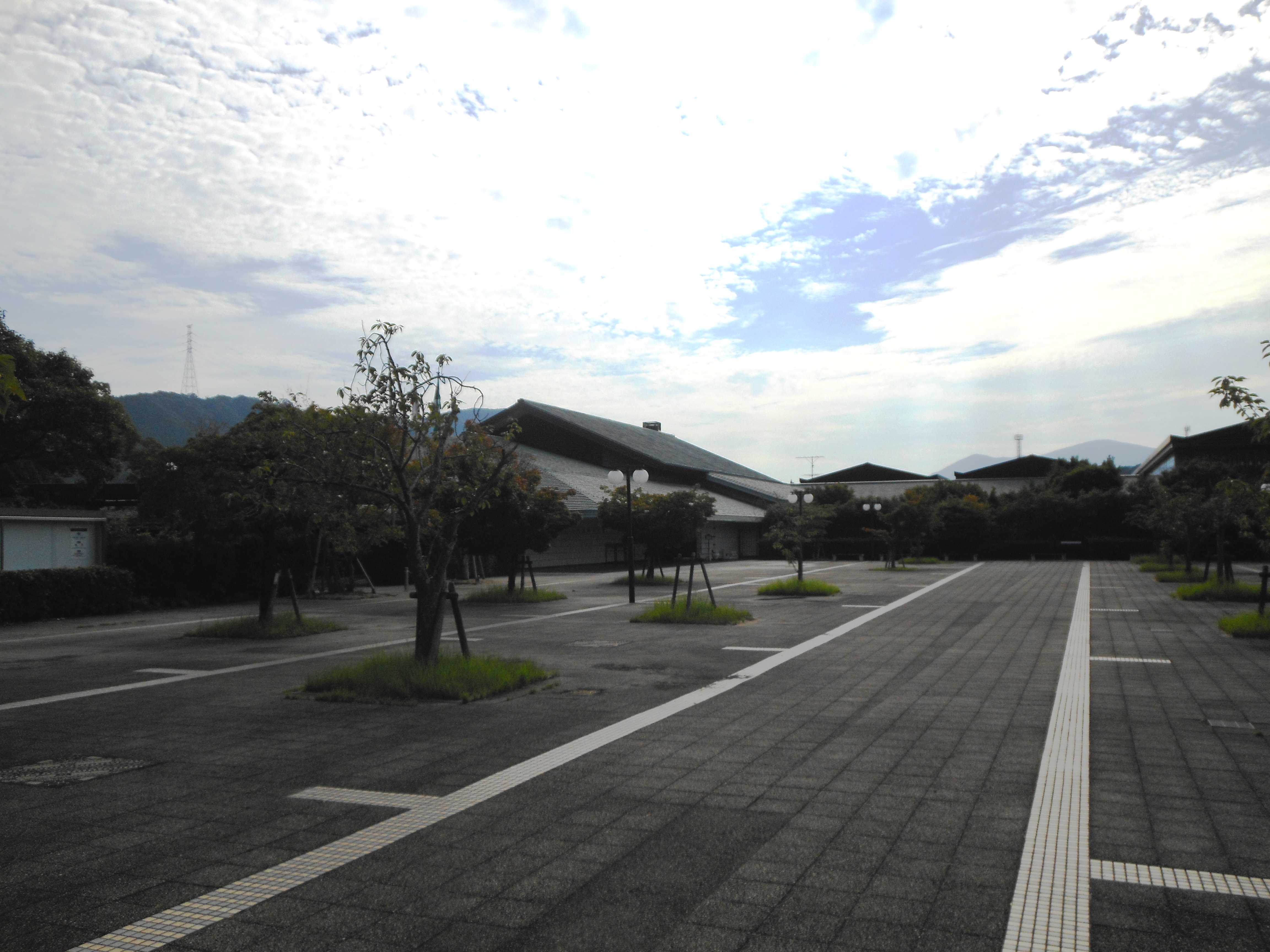 Front of Kyushu Ceramic Museum, in Arita town, Japan.